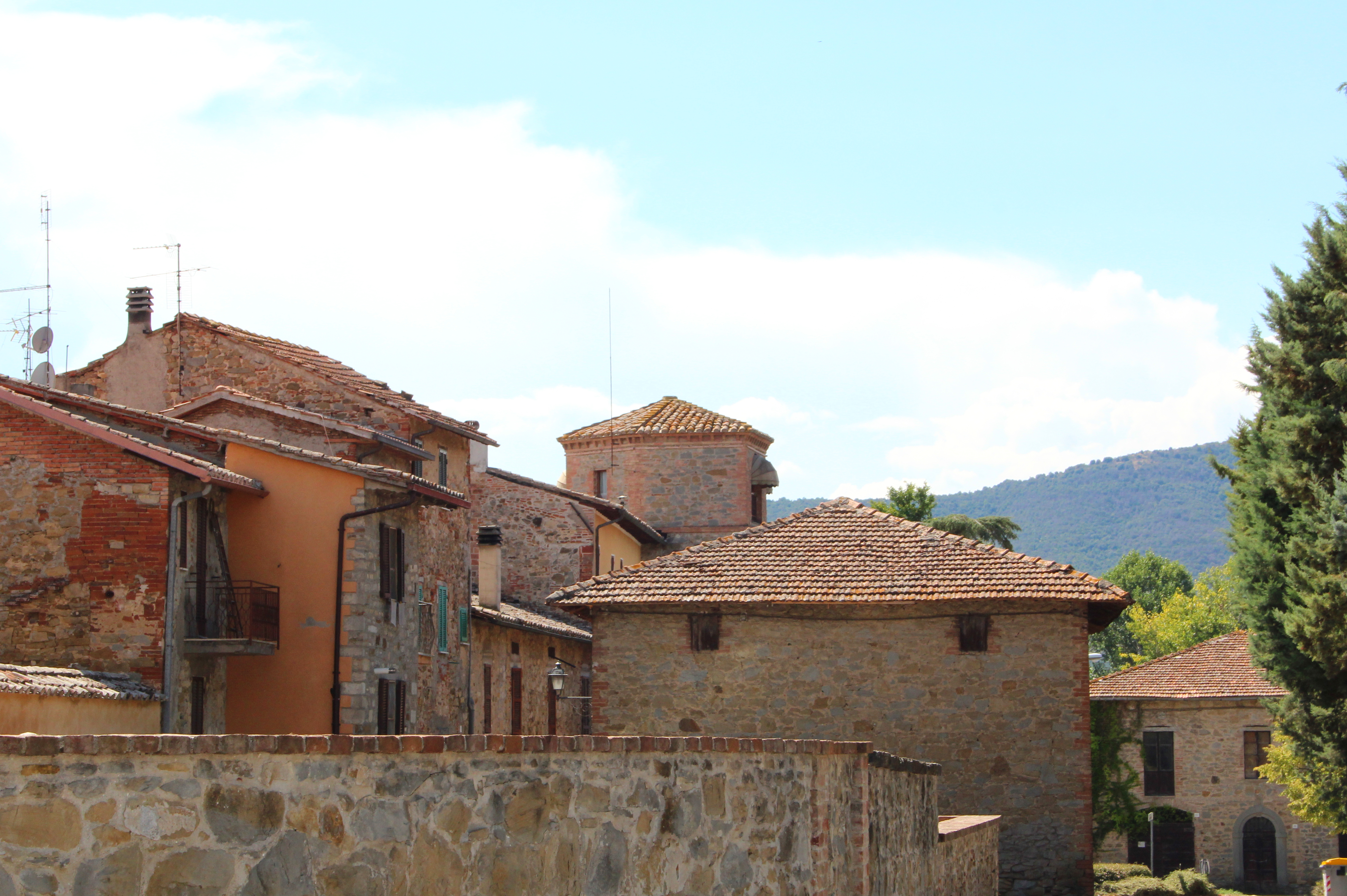 Mugnano, hamlet of Perugia, Province of Perugia, Umbria, Italy.